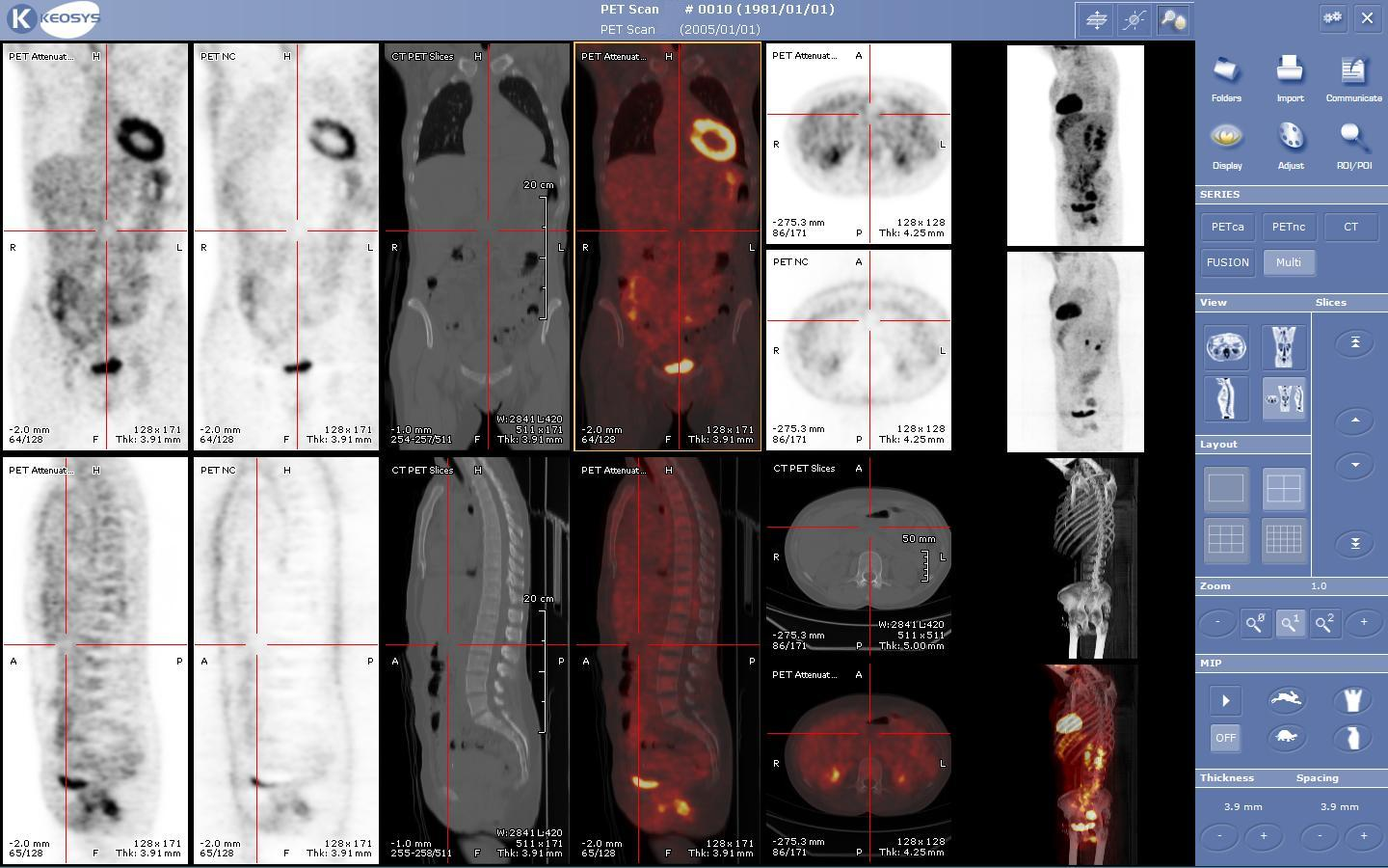 viewer medecine nucleaire keosys